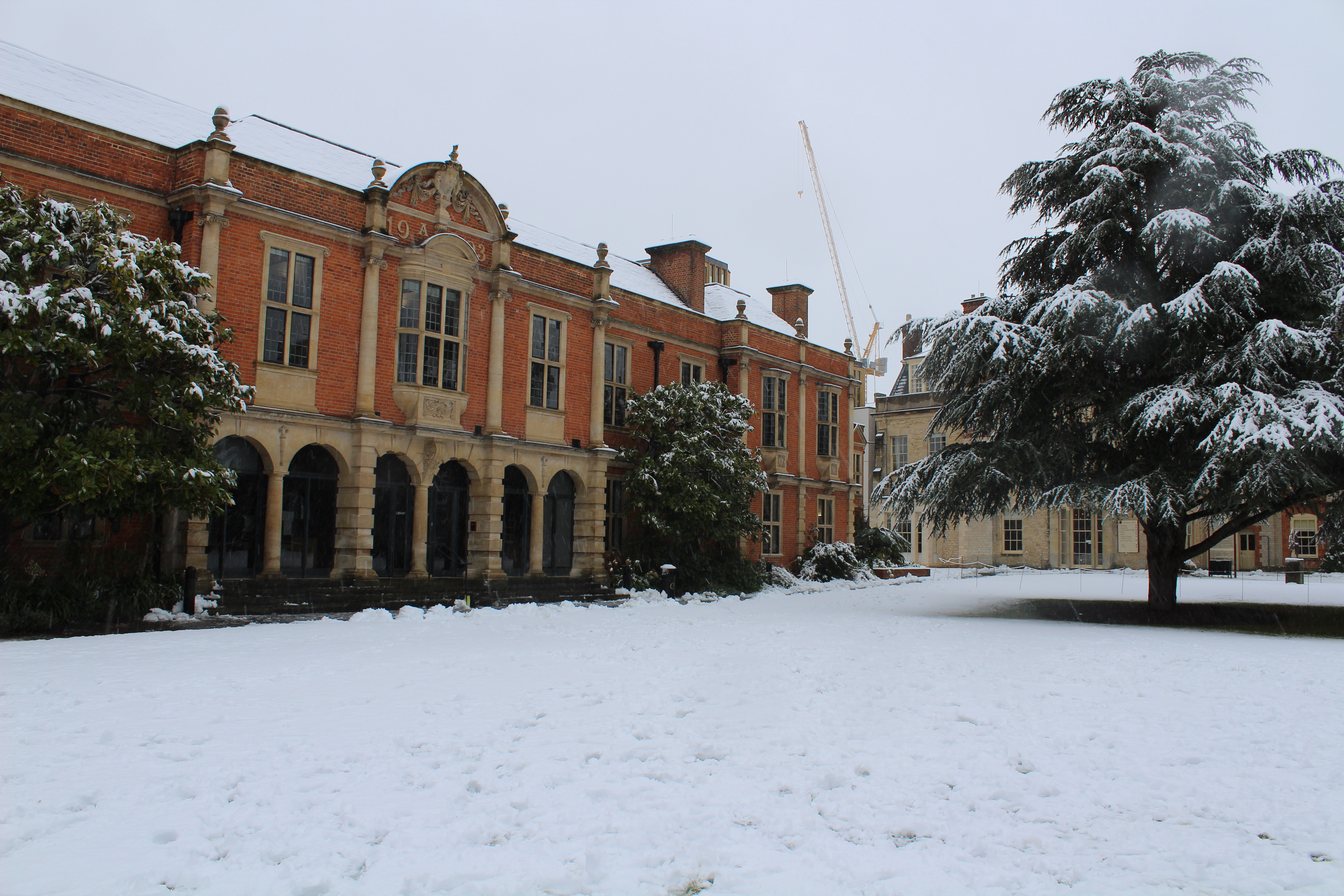 Somerville College Library in snow